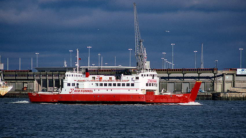 Red Funnel ferry Netley Castle departing Southampton for the Isle of Wight. Passing the QE2 cruise terminal in the background. Other names: Sis Information about the vessel may be found at IMO 7341219.A ship can change name and flag state through time, but the IMO number remains the same through the hull's entire lifetime. As a result, it can be useful to identify a ship by using the IMO number. Scanned from a Fujichrome 35mm slide.